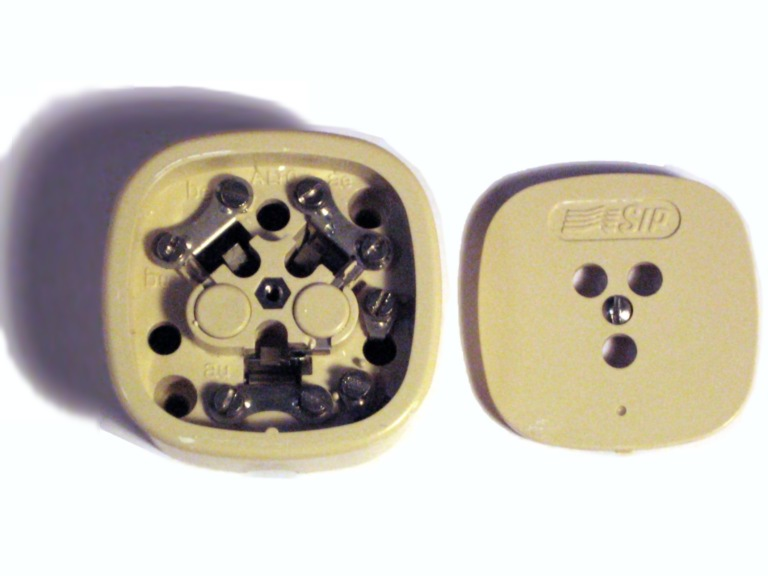 Italian tripolar telephone plug, opened. The short-circuit contact for the series wiring is visible.